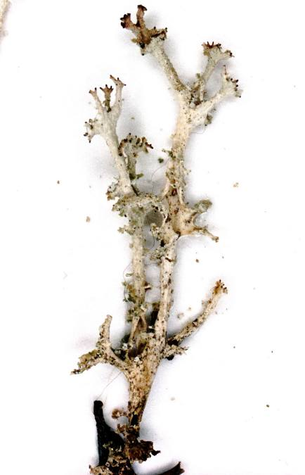 Cladonia squamosa Hoffm., 1796 Photograph of a herbarium specimen. Cladonia squamosa was growing on soil on a rock along Trail 517, about 2 miles from Forest Service Road 19, in the Dolly Sods Wilderness Area of the Monongahela National Forest, Randolph County, West Virginia, USA. Collected and determined by E.C. Uebel (No. U-56, 19 May 2001)